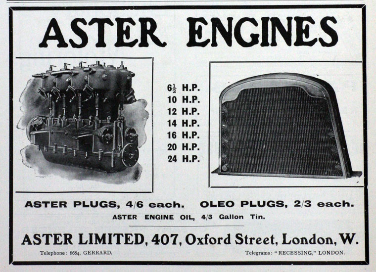 Aster Ltd, Oxford street, Advert and engine list Sept-1905